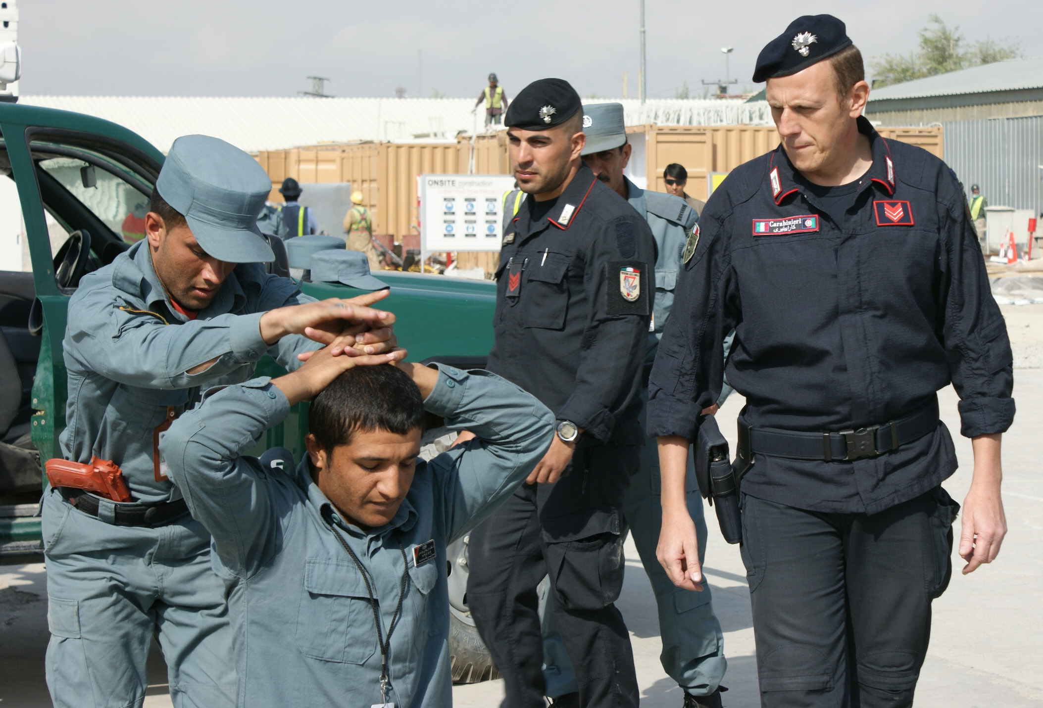 Afghan National Police train in search and apprehension techniques with Italian Carabineri advisors from NATO Training Mission-Afghanistan at the Central Training Center.